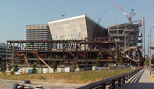 A mid-construction photo of Frank Gehry's Walt Disney Concert Hall, in Los Angeles, California.